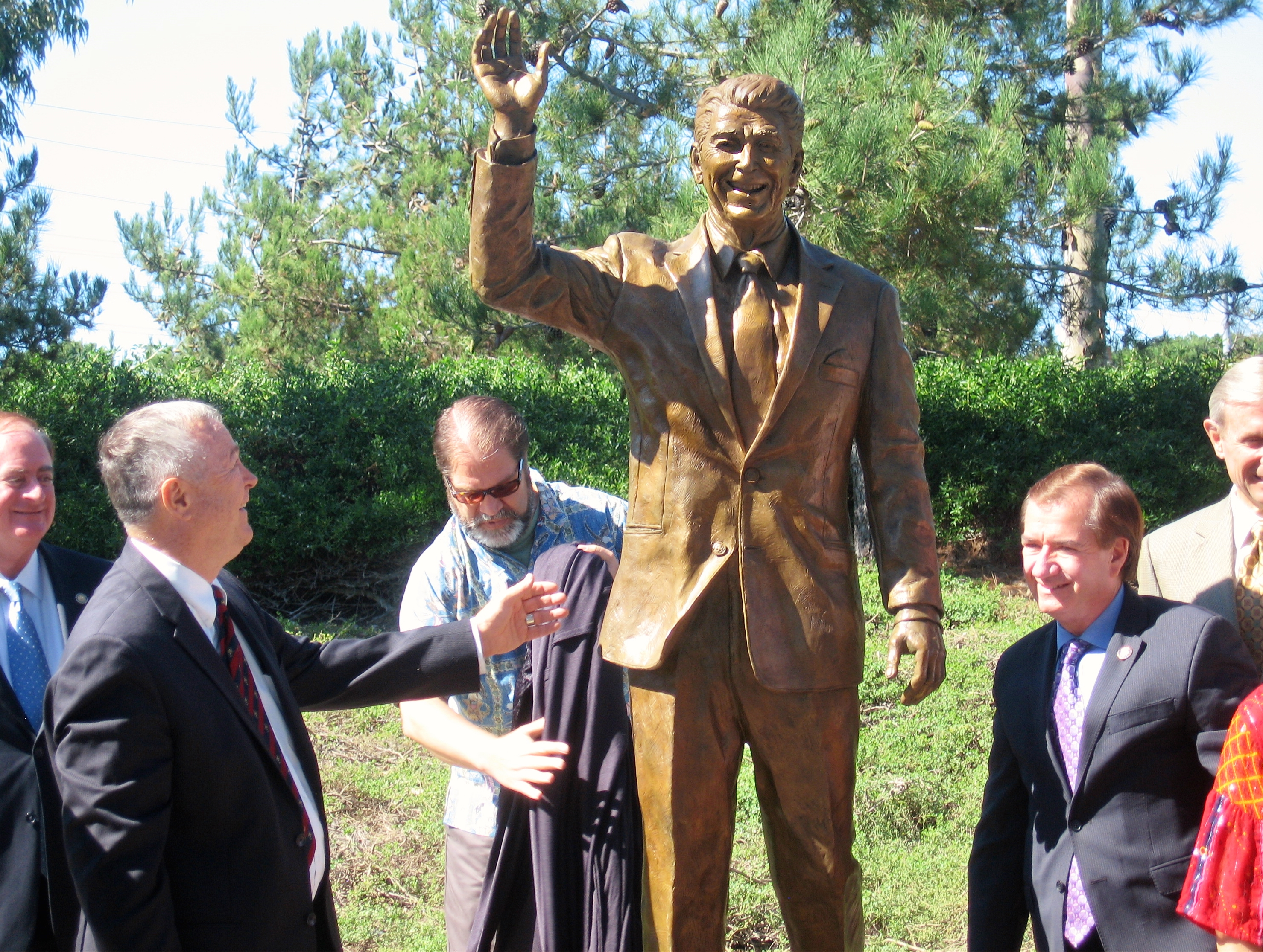 Dana Rohrabacher served Reagan from 1976 to 1988